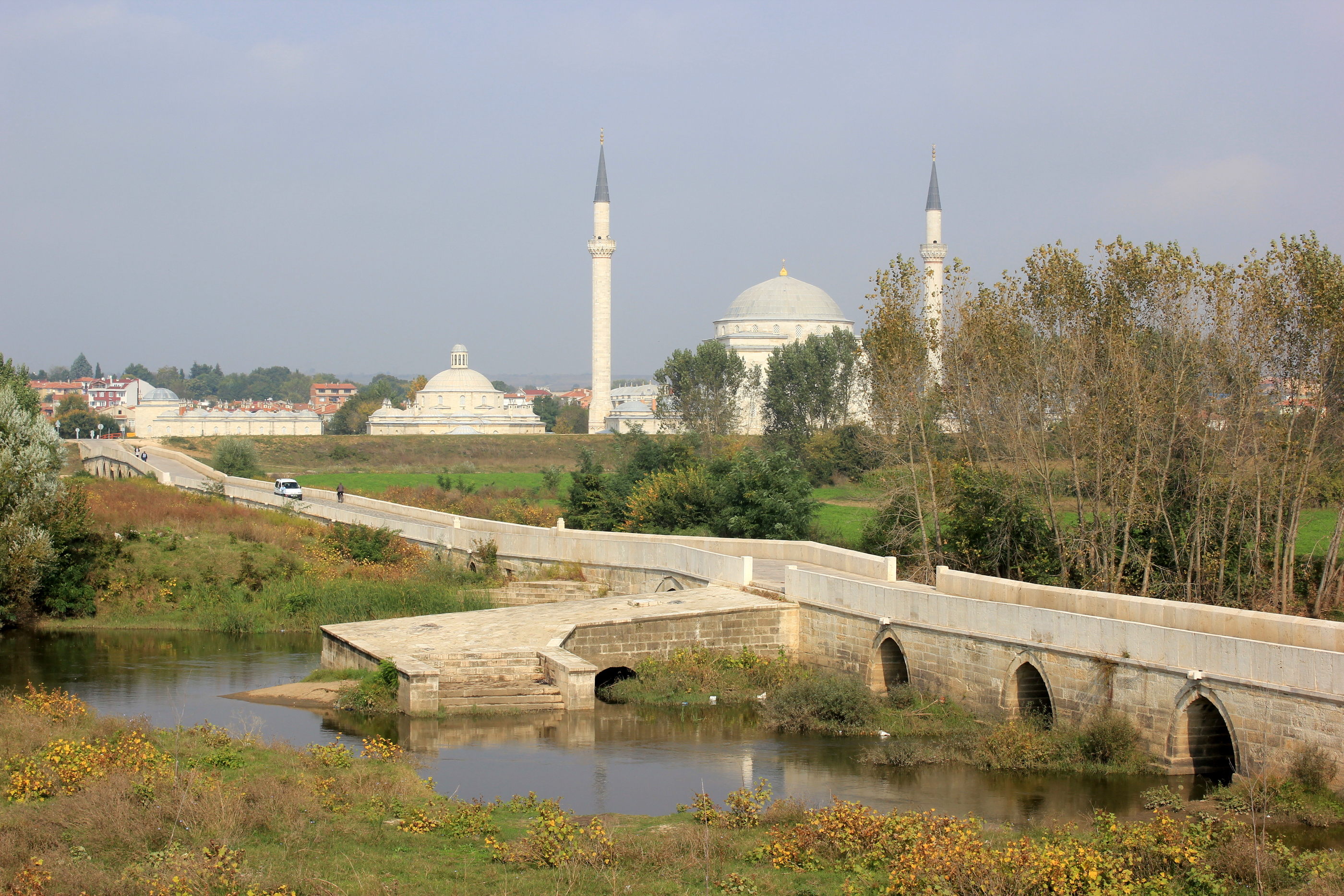 Yalnizgoz bridge over Tundzha River in Edirne.